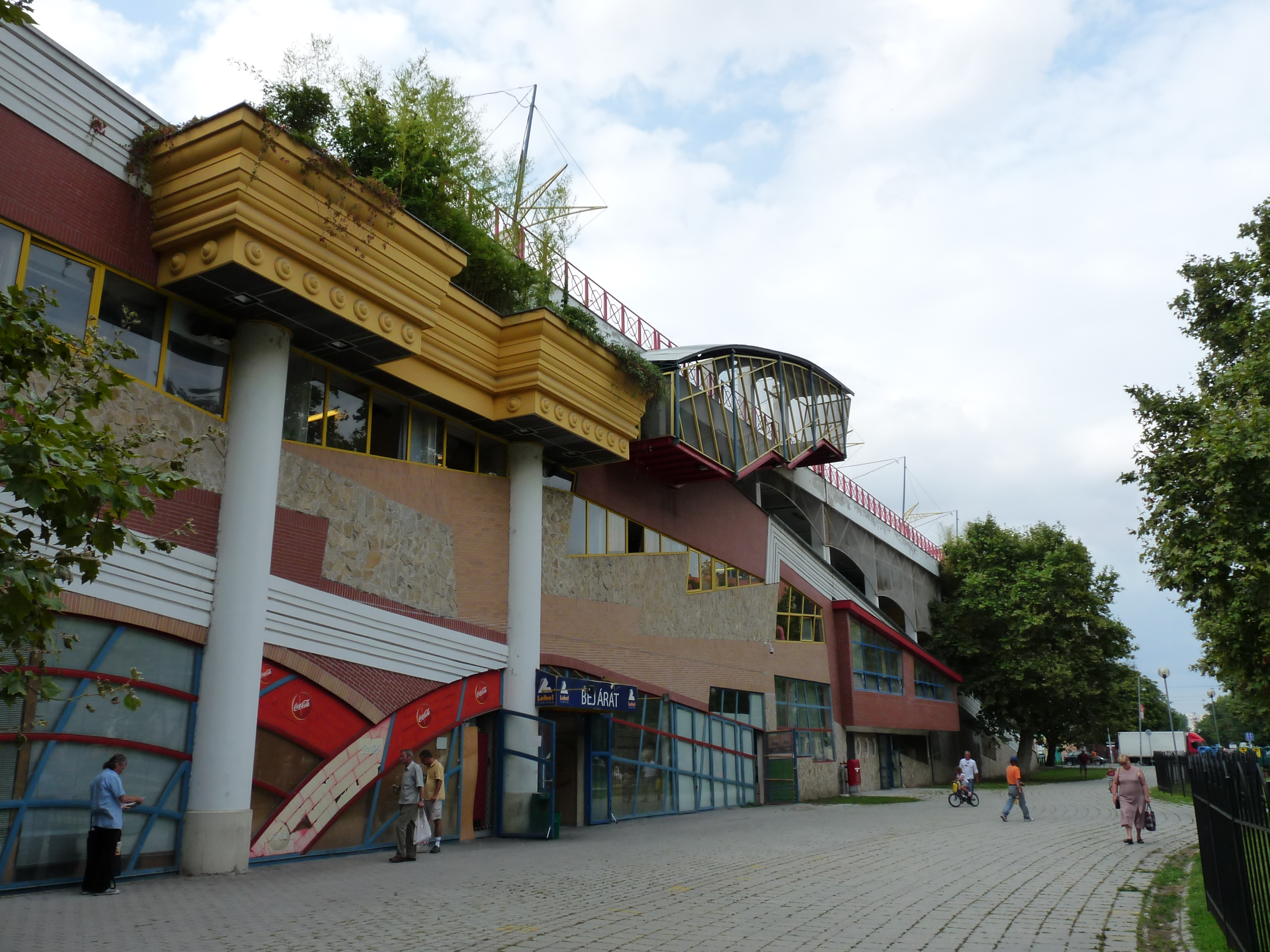 Lehel Csarnok outside view from the East